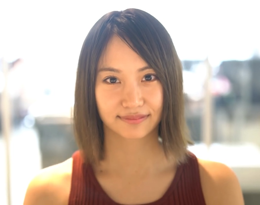 Japanese actress and former AKB48 member Mariya Nagao (永尾まりや) in 2016 ModelTalks video segment